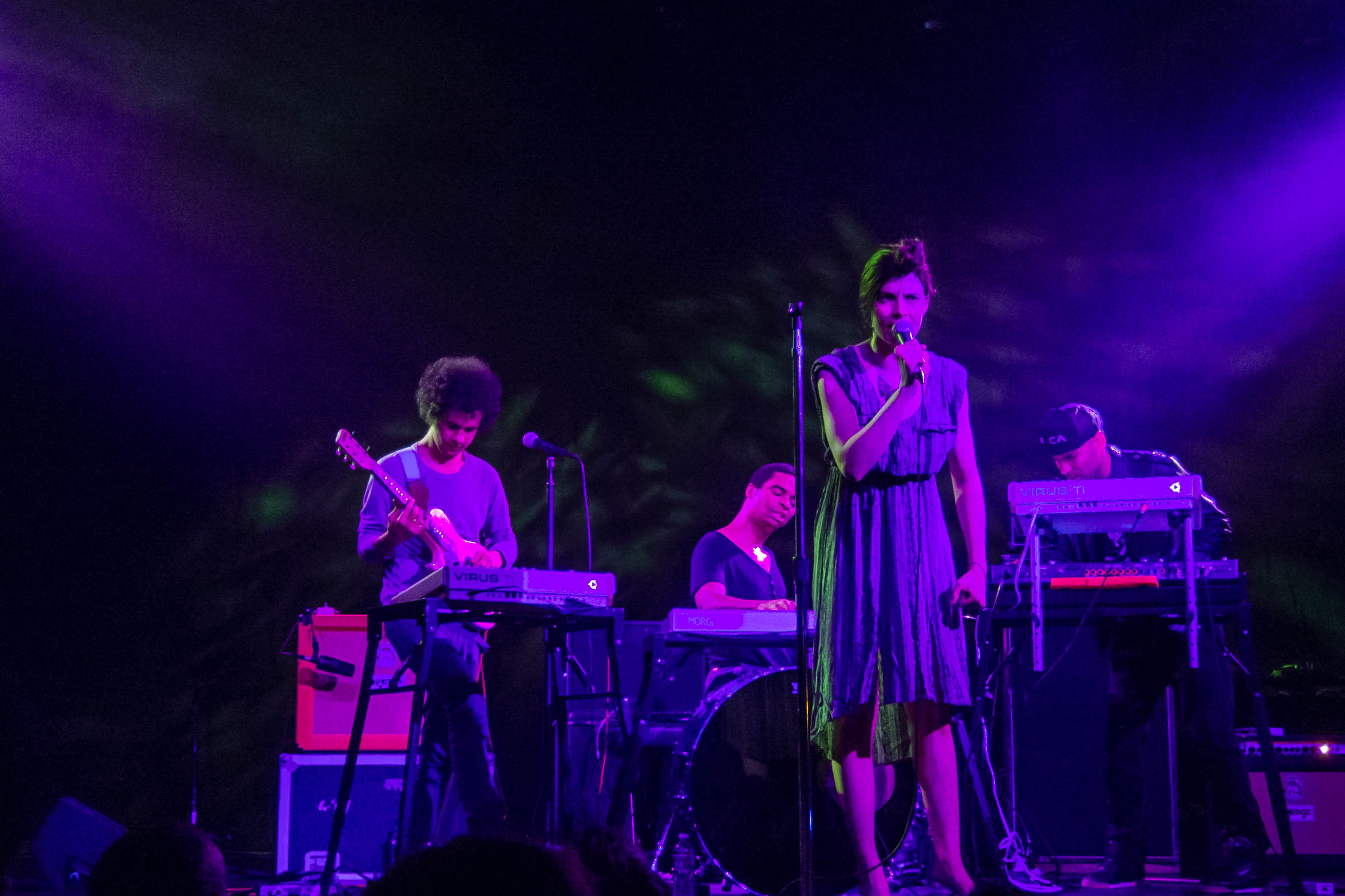 Bosnian Rainbows at The Triple Door, October 19, 2012. Left to right: Omar Rodríguez-López, Deantoni Parks, Teri Gender Bender and Nicci Kasper.